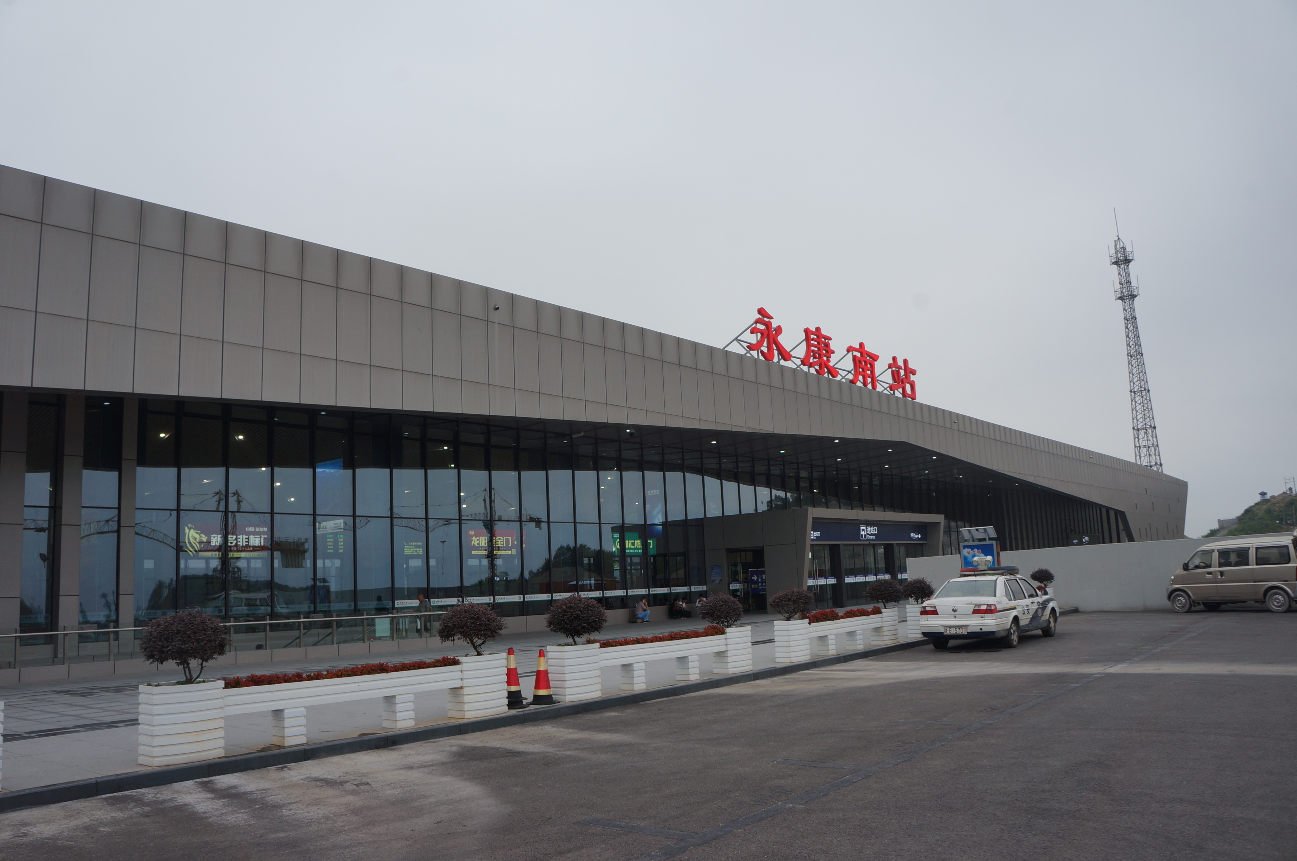 201606 Facade of Yongkangnan Station